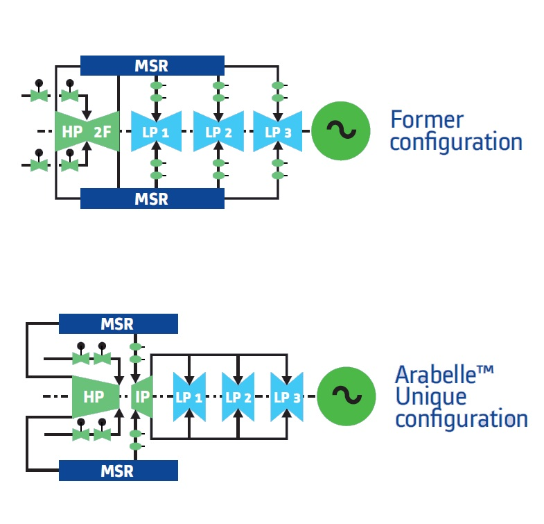 Turbine of EPR. Siemens on top, and Arabelle from Alstom. HP = high pressure turbine, LP = low pressure, IP = intermediate pressure turbine, MSR = moisture separation reheaters